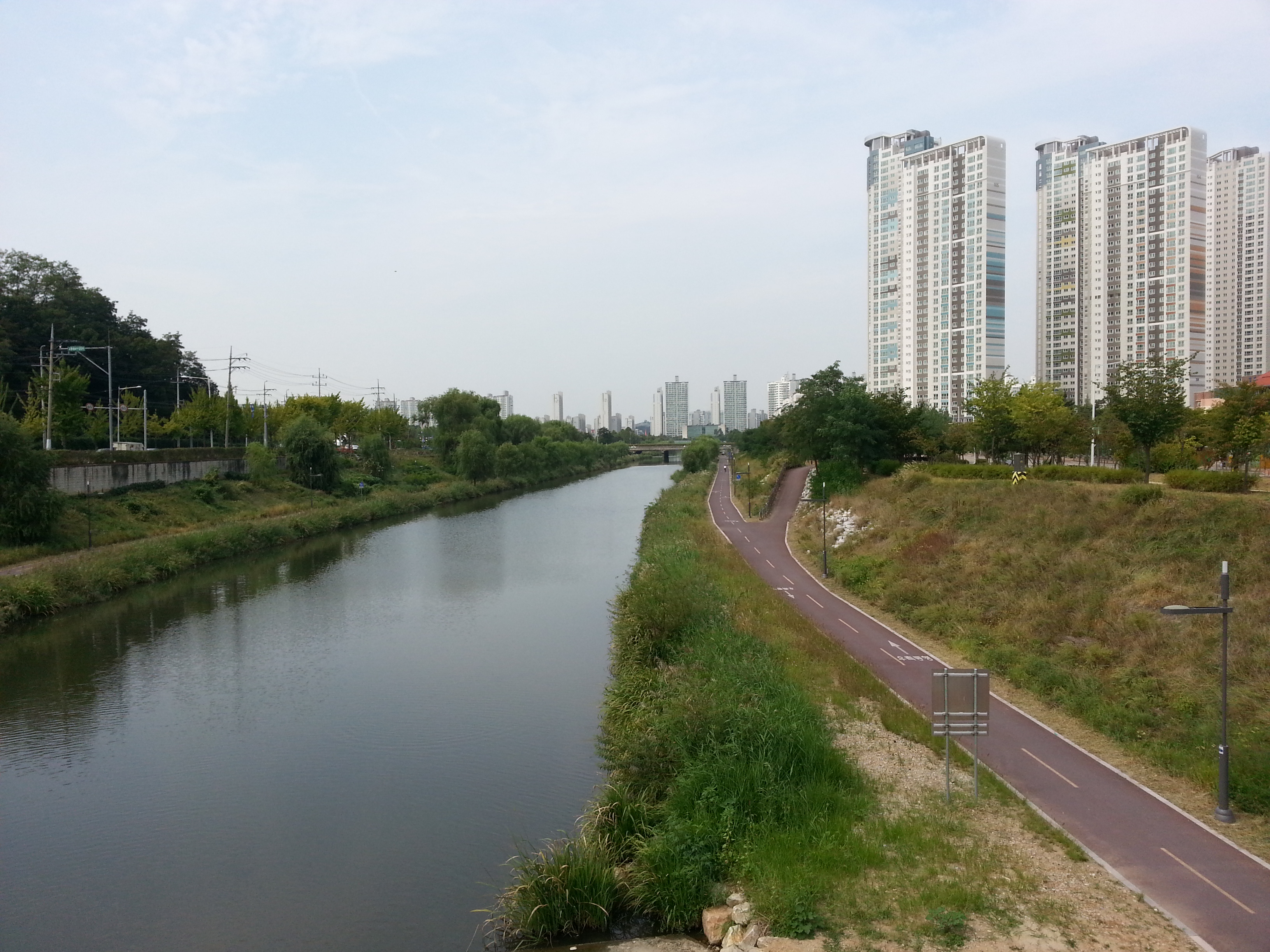 Ansan stream in Korea